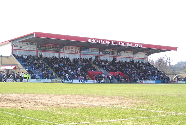 Mainstand Image of Hinckley United